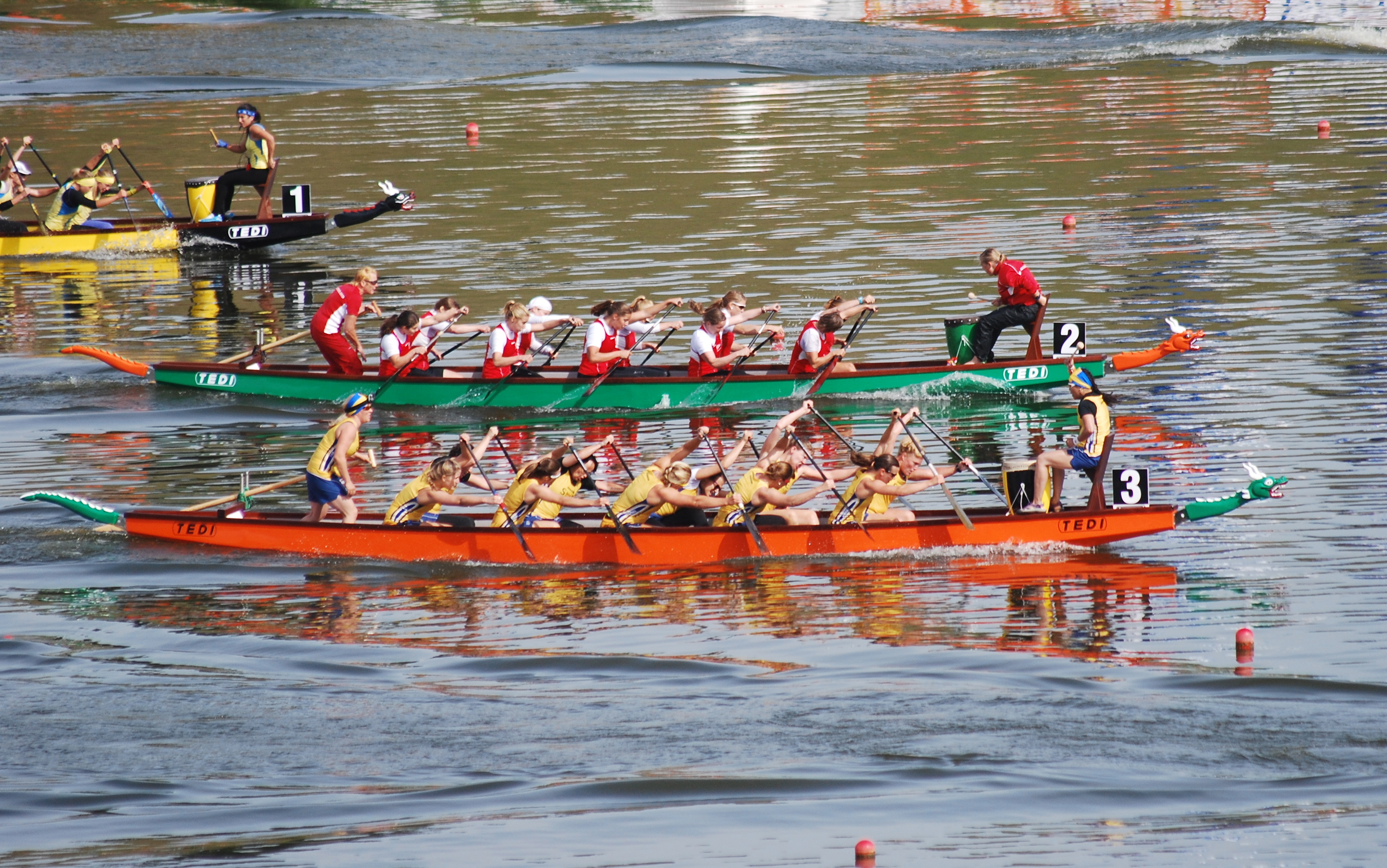 ICF World Dragon Boat Racing Championships 2014 in Poznan, Poland. Small boat senior women racing.